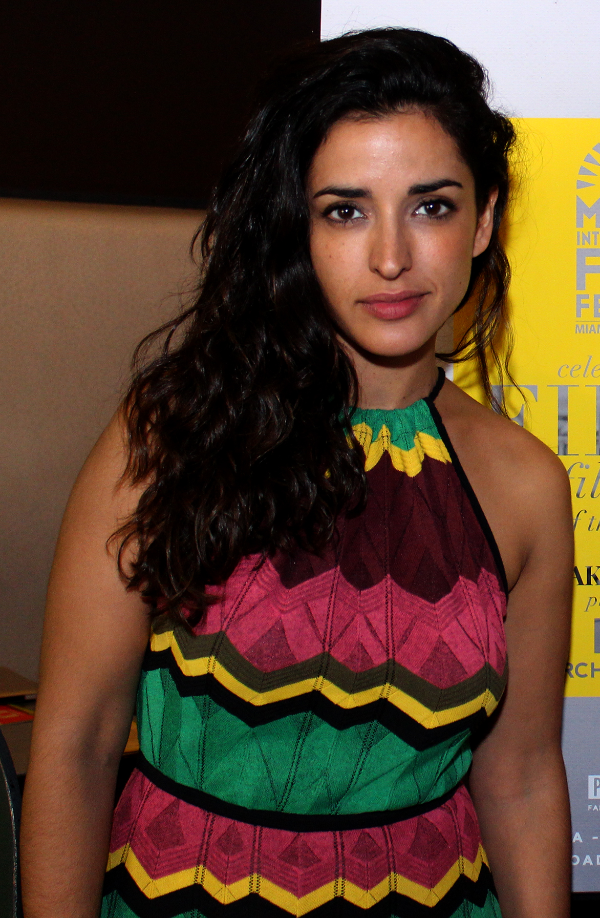 Actress Inma Cuesta and director Alvaro Fernandez Armero at the presentation of Sidetracked at the Miami International Film Festival